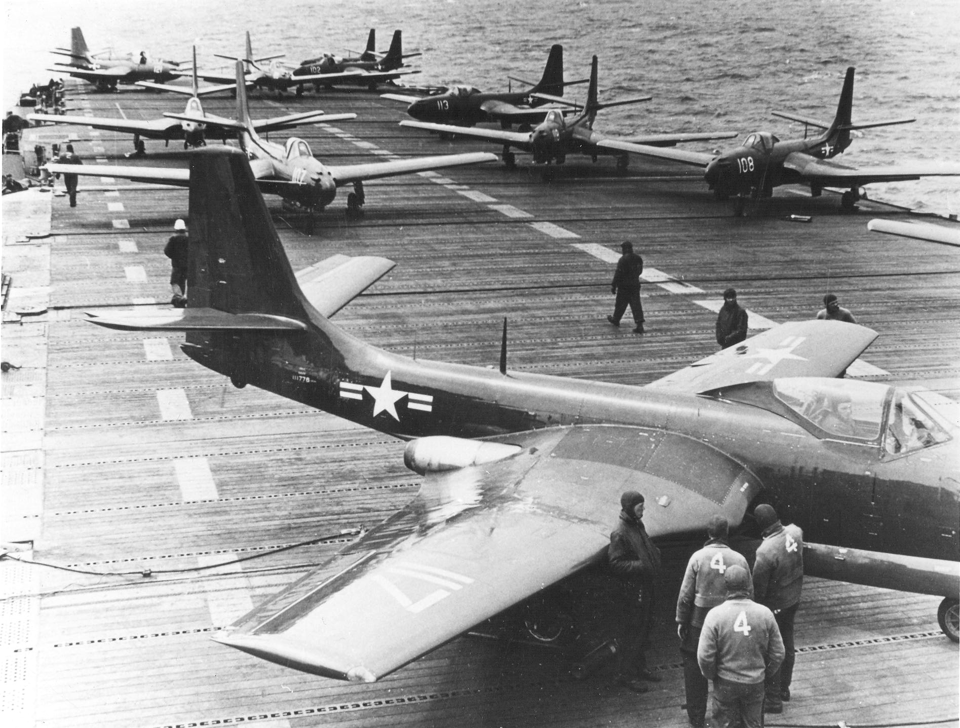 U.S. Navy McDonnell FH-1 Phantoms of Fighter Squadron 17A (VF-17A) "Phantom Fighters" on the light aircraft carrier USS Saipan (CVL-48) on 6 May 1948.